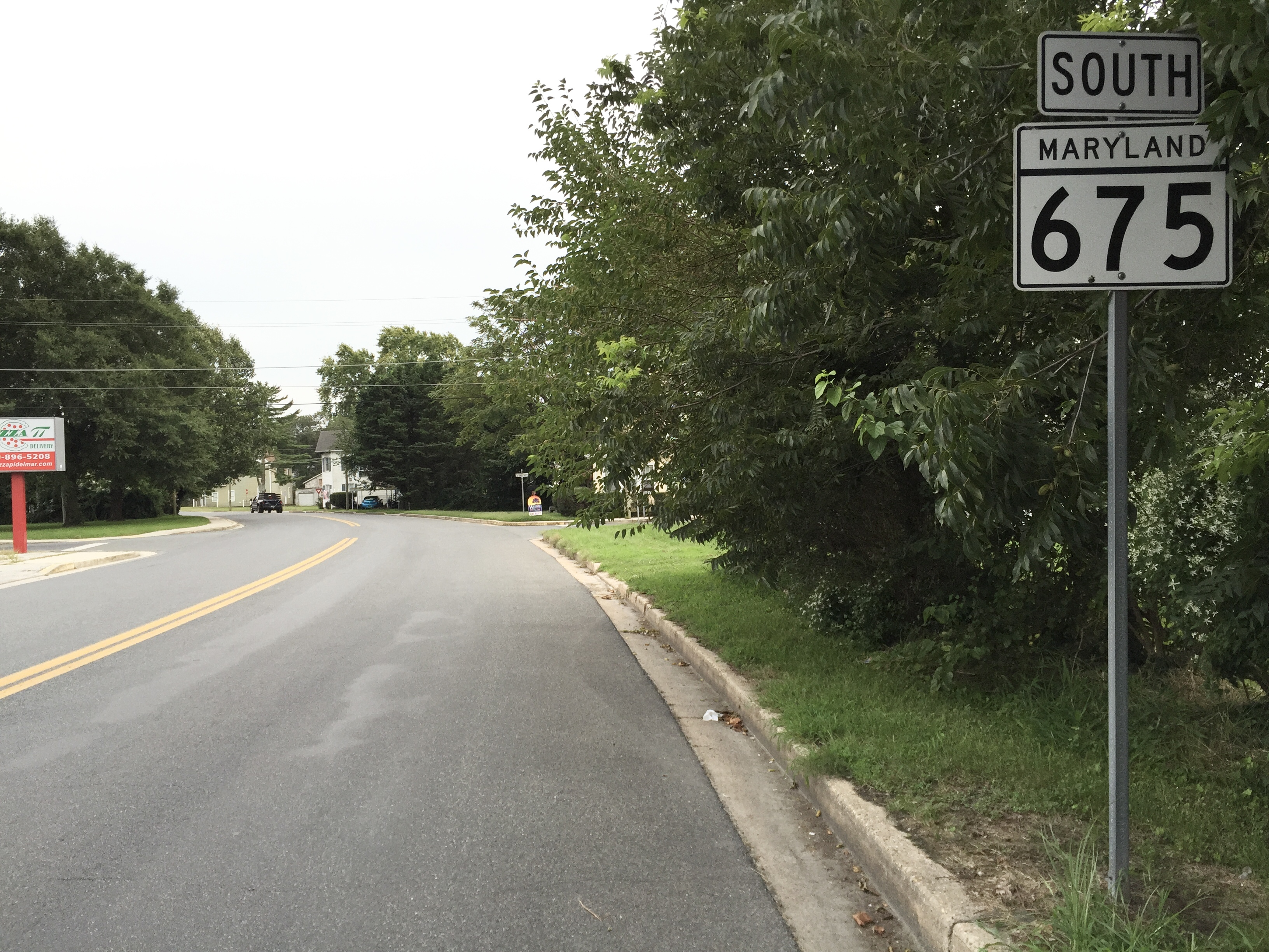 View south along Maryland State Route 675 (Bi State Boulevard) at Maryland State Route 54 and Delaware State Route 54 (State Street) in Delmar, Wicomico County, Maryland